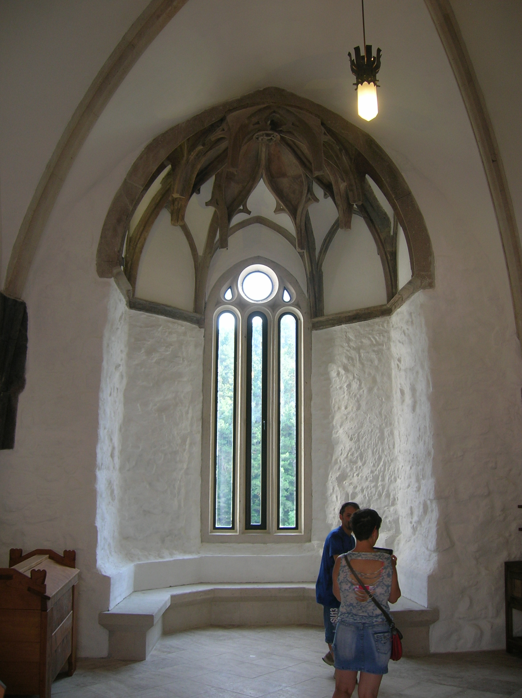 Diósgyőr castle interior with window